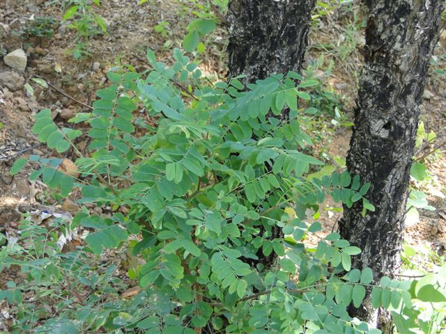 Chloroxylon swietenia in Indian Forest